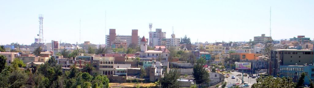 Arequipa Skyline